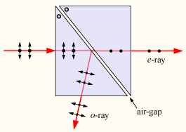 A Glan-Foucault prism. By Bob Mellish.